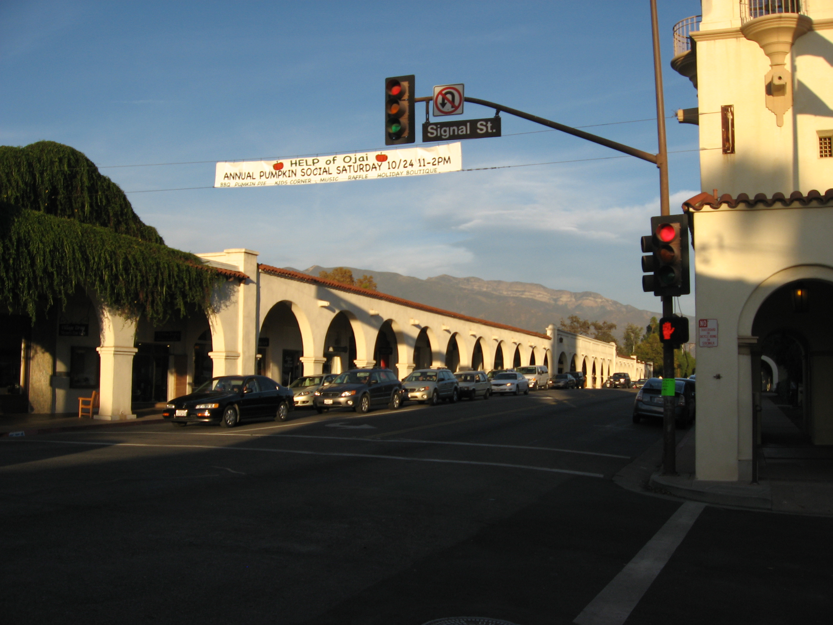 Ojai Arcade — Vis-à-vis of the post office. Located in downtown Ojai, Southern California. Built in 1917 in the Spanish Colonial Revival style.